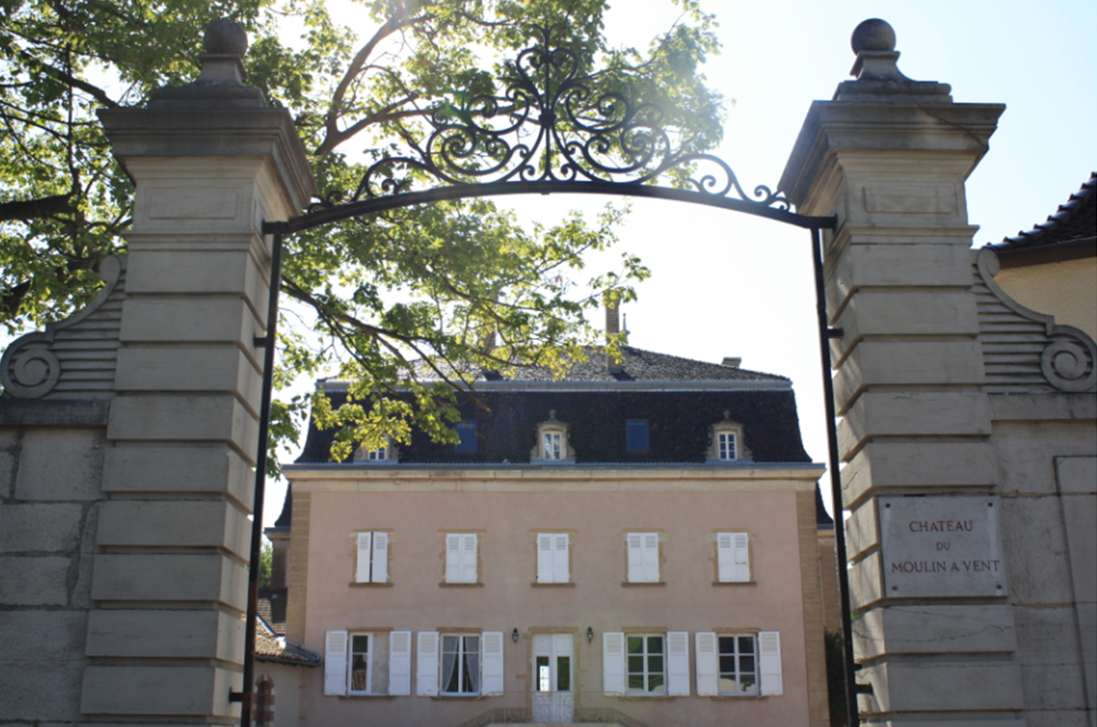 Yard's portal at Château du Moulin-à-Vent